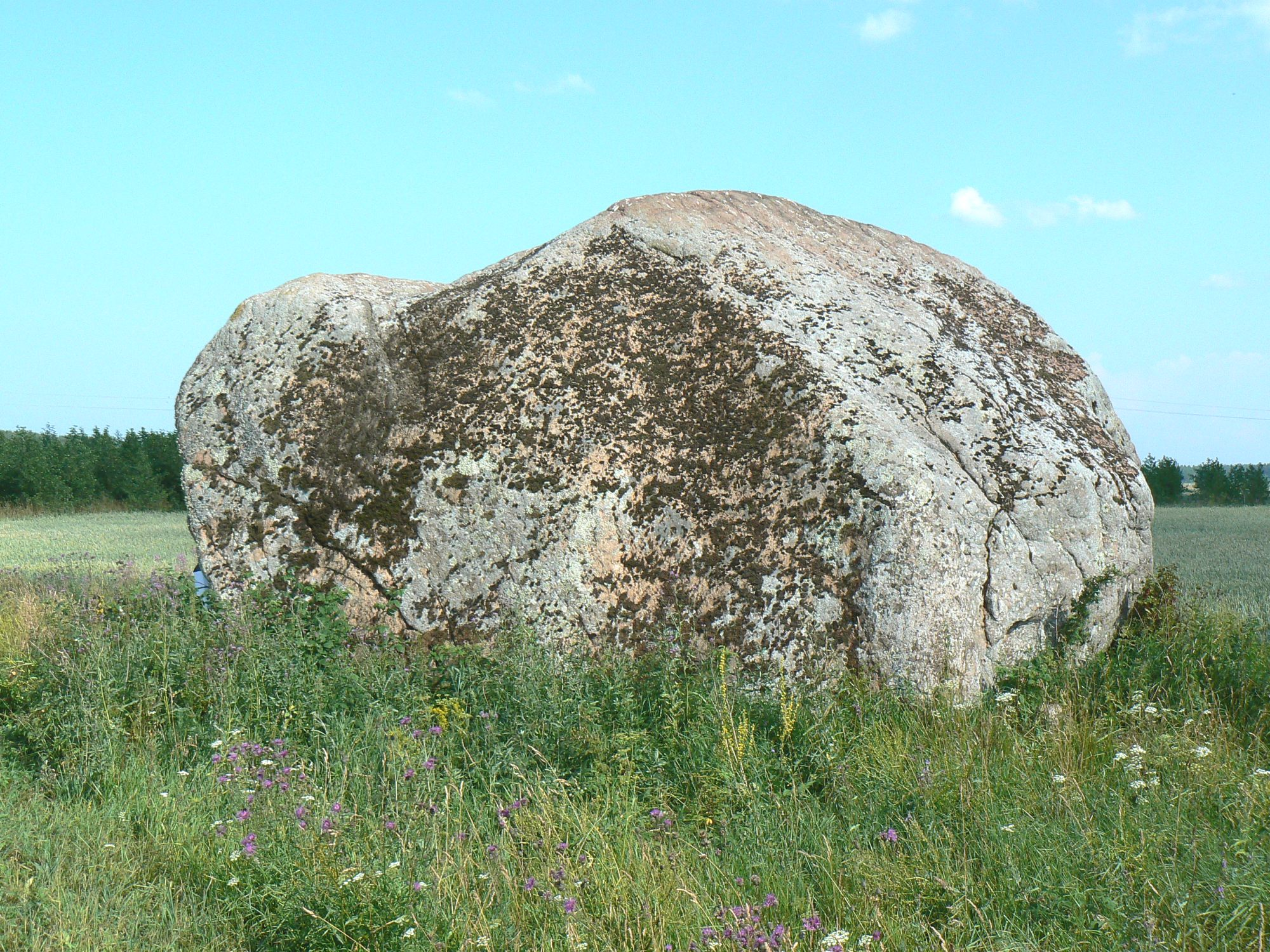 Varja glacial erratic in Estonia